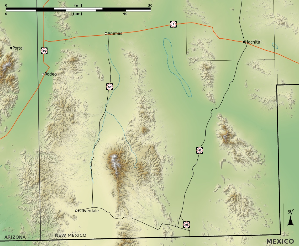 A shaded-relief topo map of the New Mexico Bootheel region, located in southern Hidalgo County, southwestern New Mexico. The Bootheel's valleys, from west to east, are: Animas Valley, Playas Valley, and Hachita Valley.